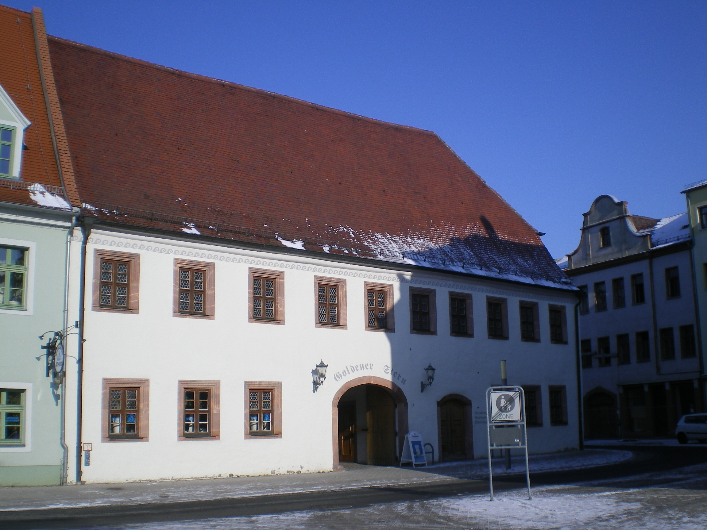 House „Golden Star“ in Borna near Leipzig/Saxony